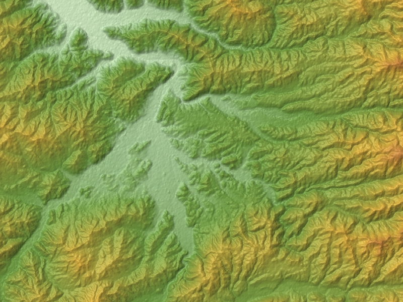 Takayama Basin in Takayama, Gifu Prefecture, Honshu, Japan.